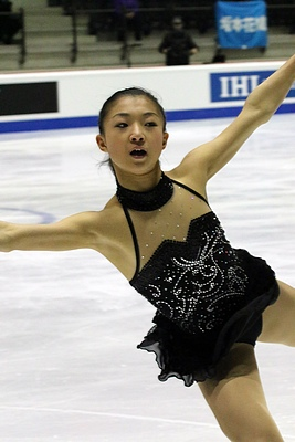 Junior World Championships 2015 (Kaori SAKAMOTO JPN – 6th Place)